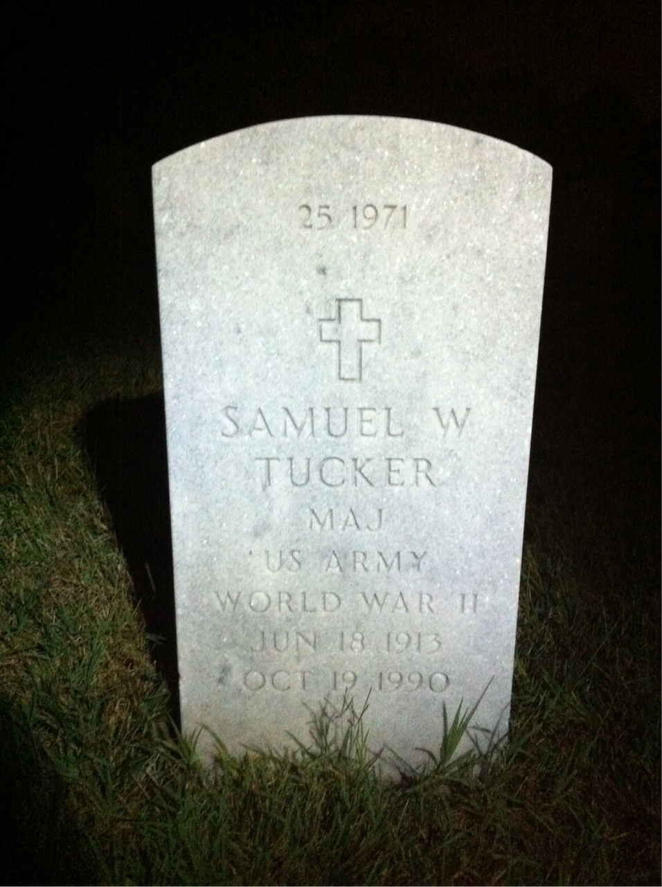 Grave of Samuel Wilbert Tucker at Arlington National Cemetery